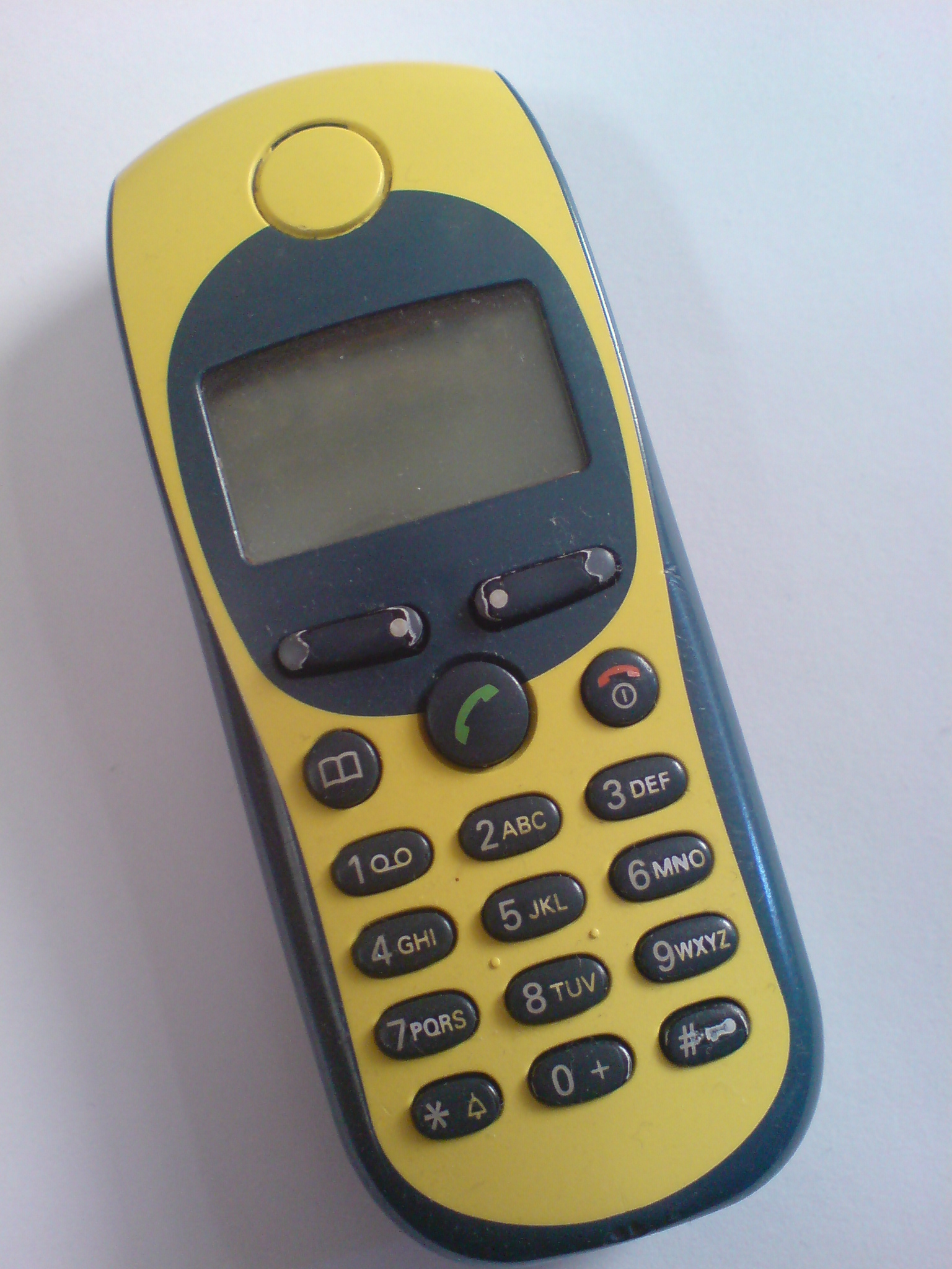 siemens M35i mobile phone